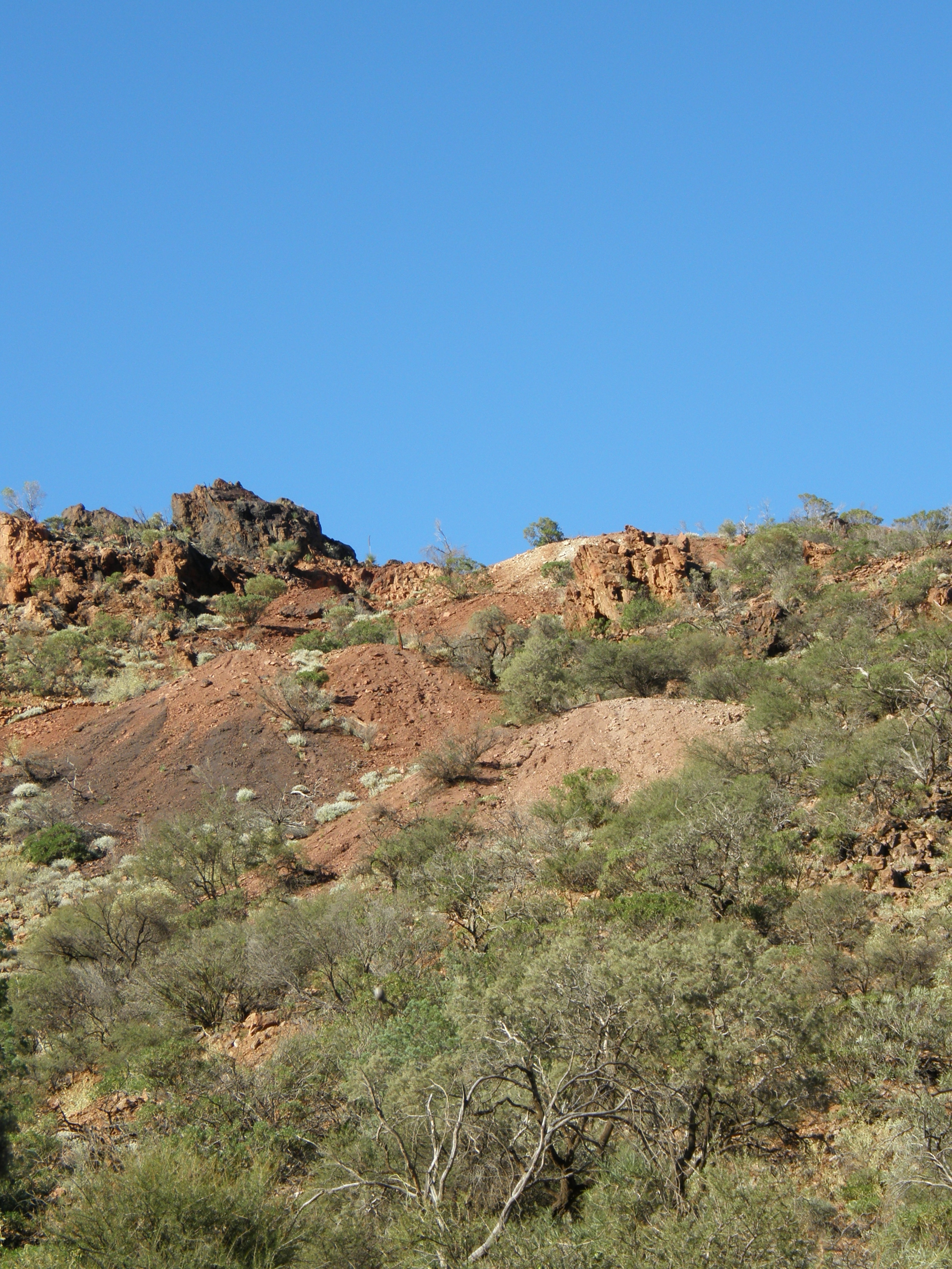 Former uranium mine at Mt. Gee, Arkaroola area, South Australia: mining for uranium started here in 1906